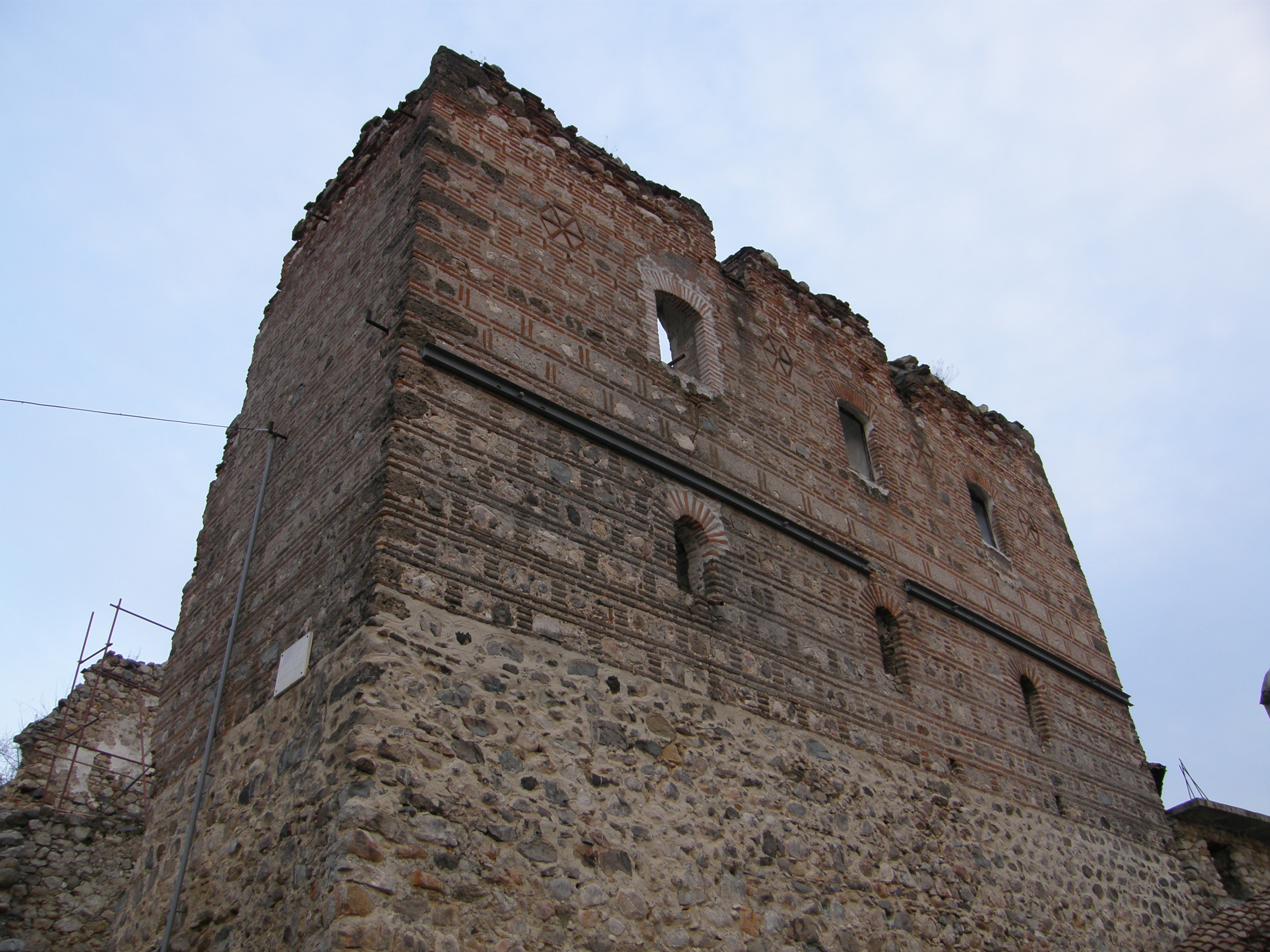 The "Byzantine House" at Melnik. It was built between 12 and 13th century. The 'Byzantine House' at Melnik (Meleniko)